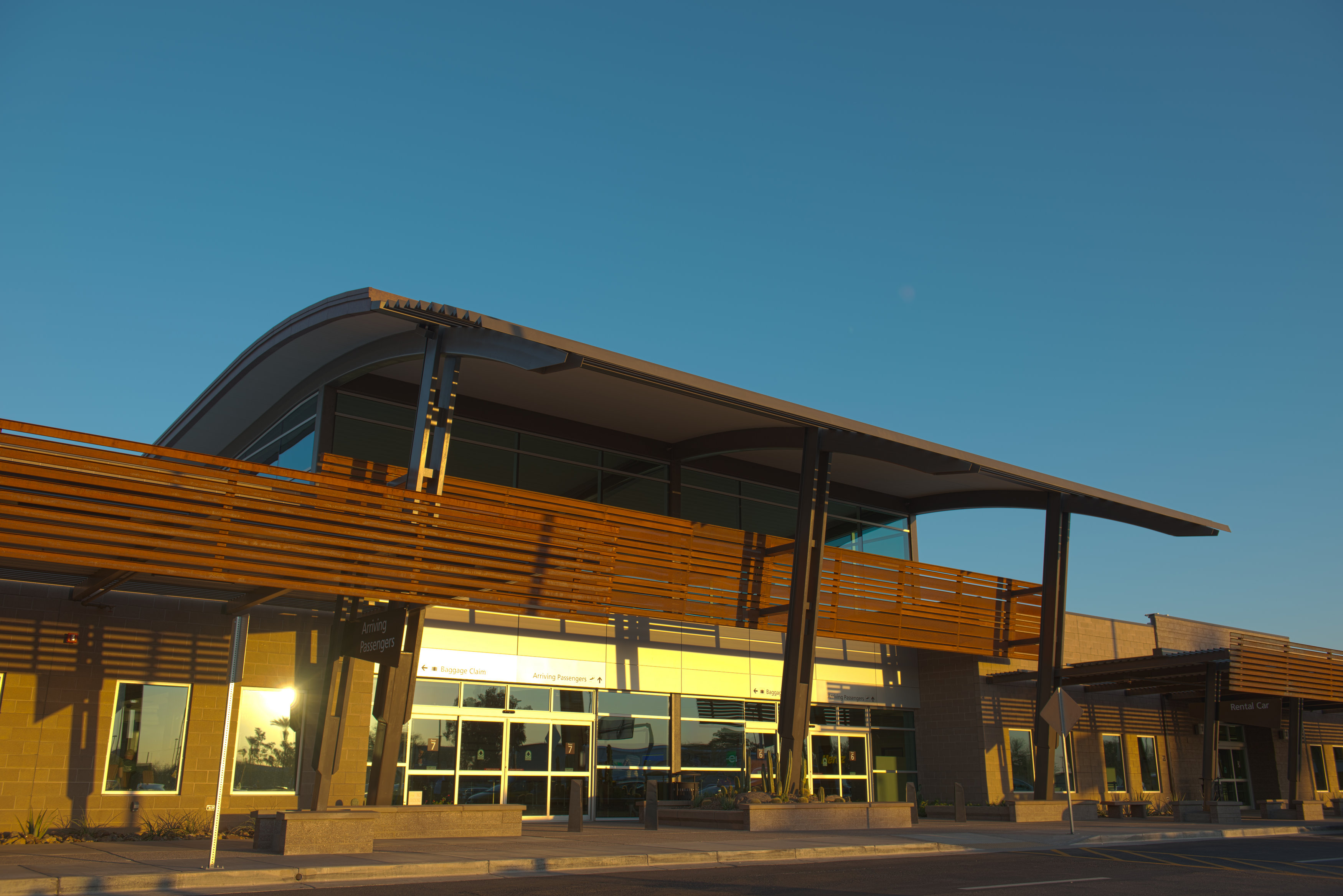 Phoenix Mesa Gateway Airport - Baggage claim building.